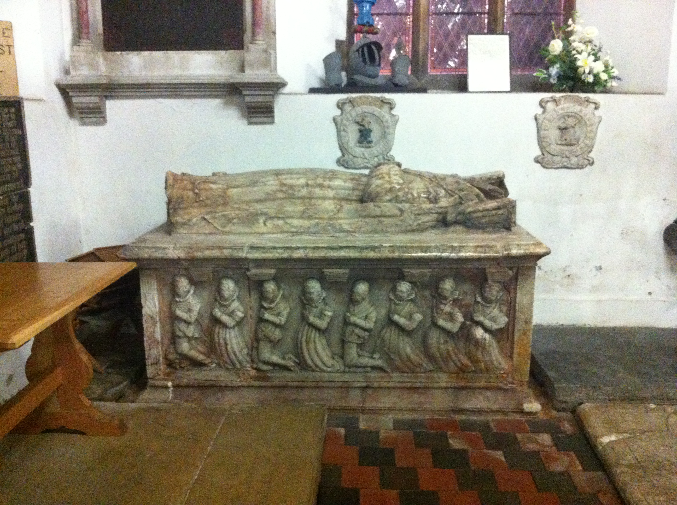 Here lyeth the body of the Lady Anne Stanhope, widowe, daughter to Nicholas Rawson of Aveley, in the County of Essex, Esquire, late wife to Sir Michael Stanhope, Knight, which Lady Anne, deceased the 20th February, anno 1587. Vivit post funera virtus.